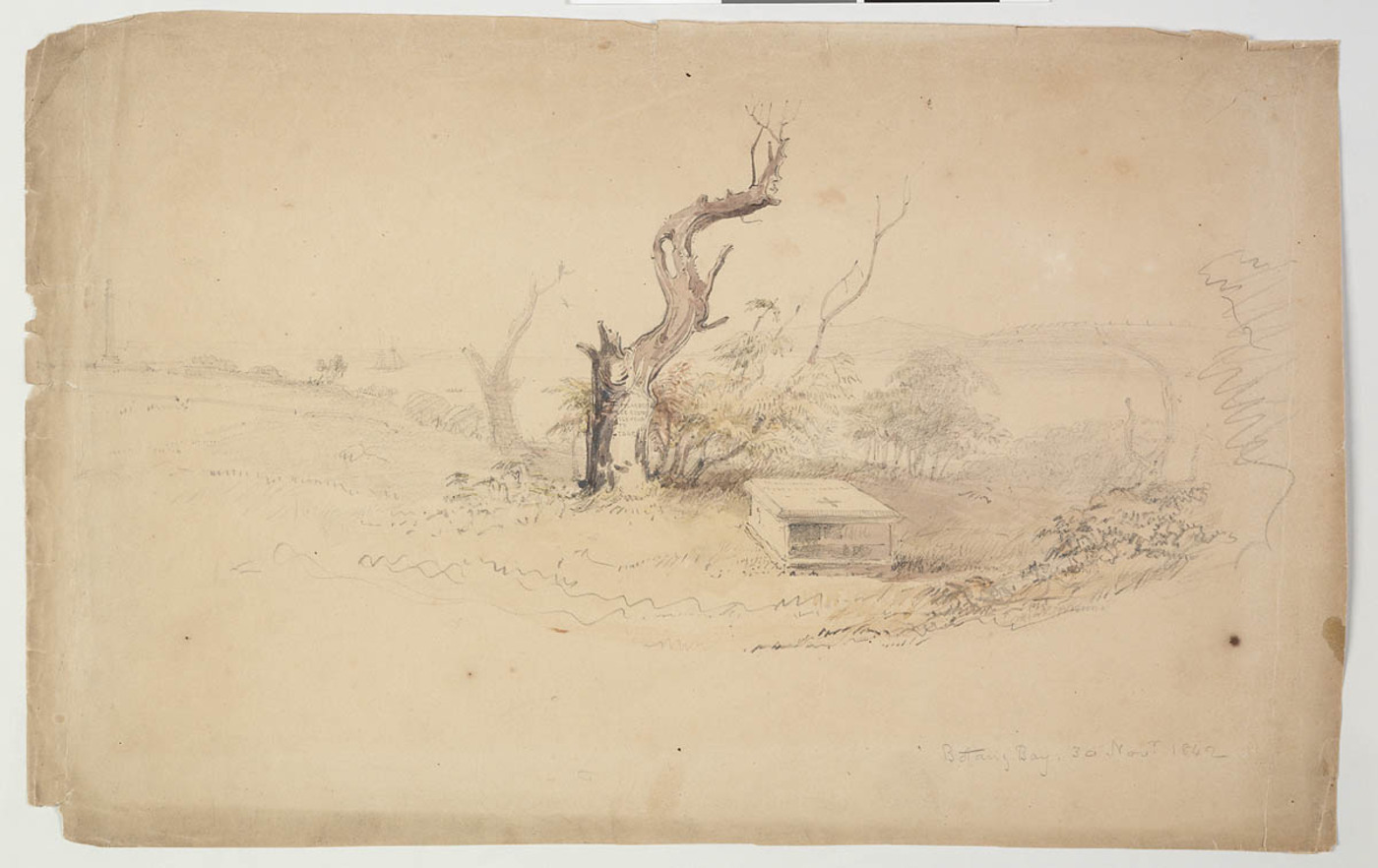 sketch of the marked tree and memorial tombstone, erected by Bougainville. Sketch signed and dated by Oswald W.B. Brierly 30 Nov 1842